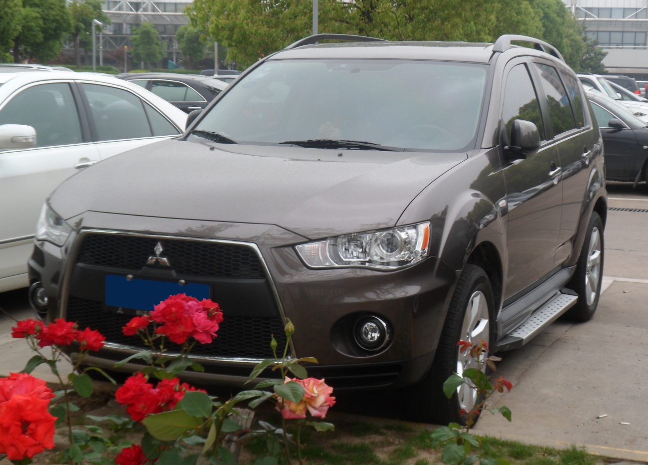 Mitsubishi Outlander EX facelift photographed in Shanghai, China.